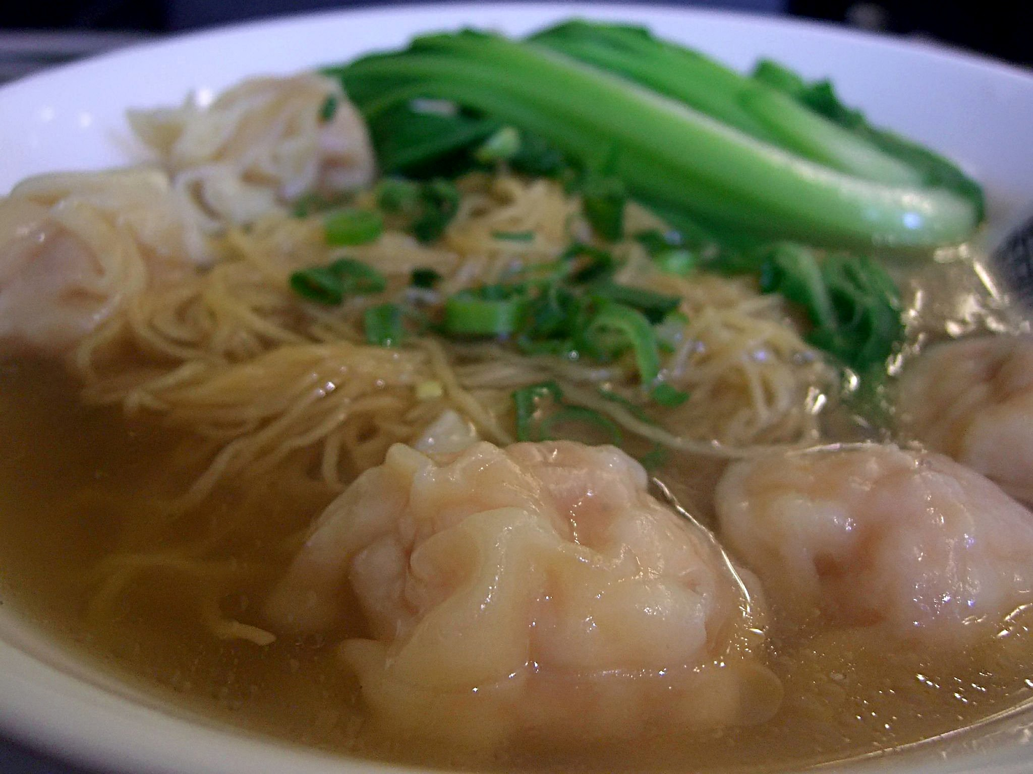 Cantonese cuisine wonton noodle